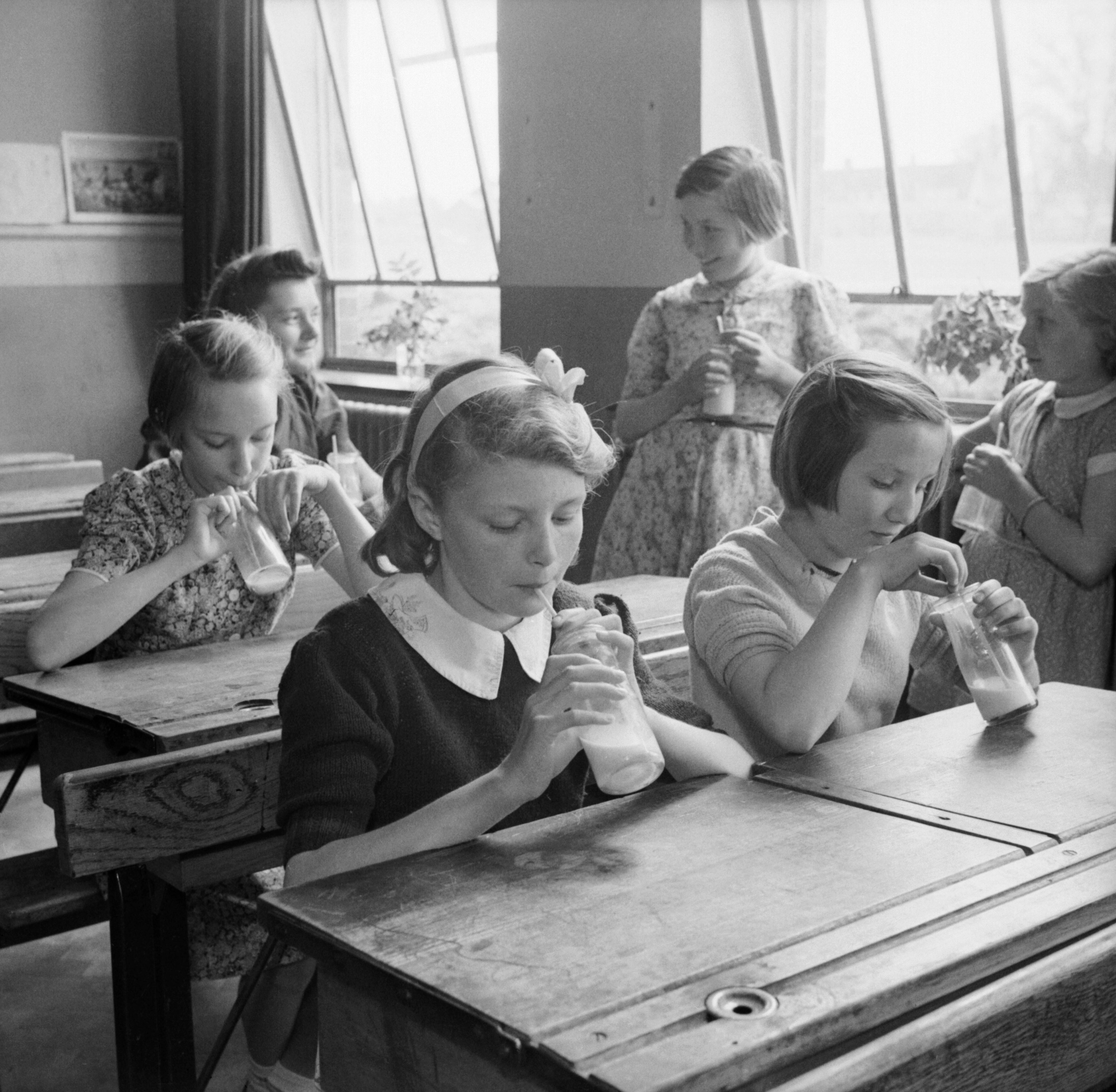 Girls at Baldock County Council School in Hertfordshire enjoy a drink of milk during a break in the school day in 1944. Girls at Baldock County Council School enjoy a drink of milk during a break in the school day. According to the original caption, every child receives either a third of a pint or two-thirds of a pint of milk a day, and "free milk is given to evacuees and poor children".